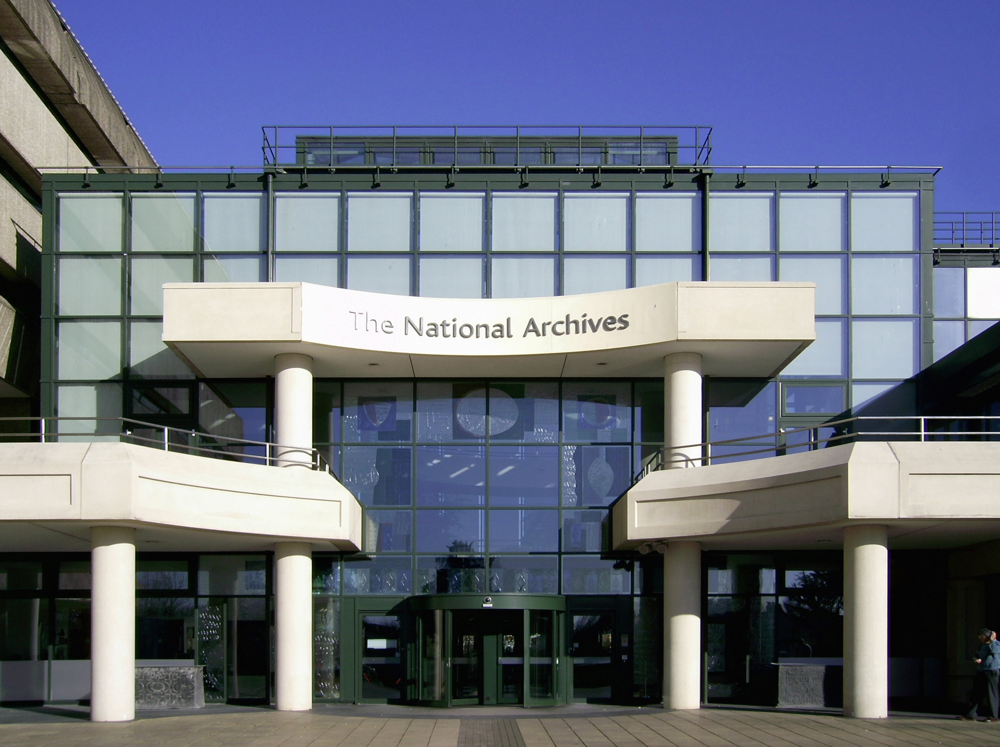 Photograph of the The National Archives, taken by Nick Cooper 3 February, 2007.